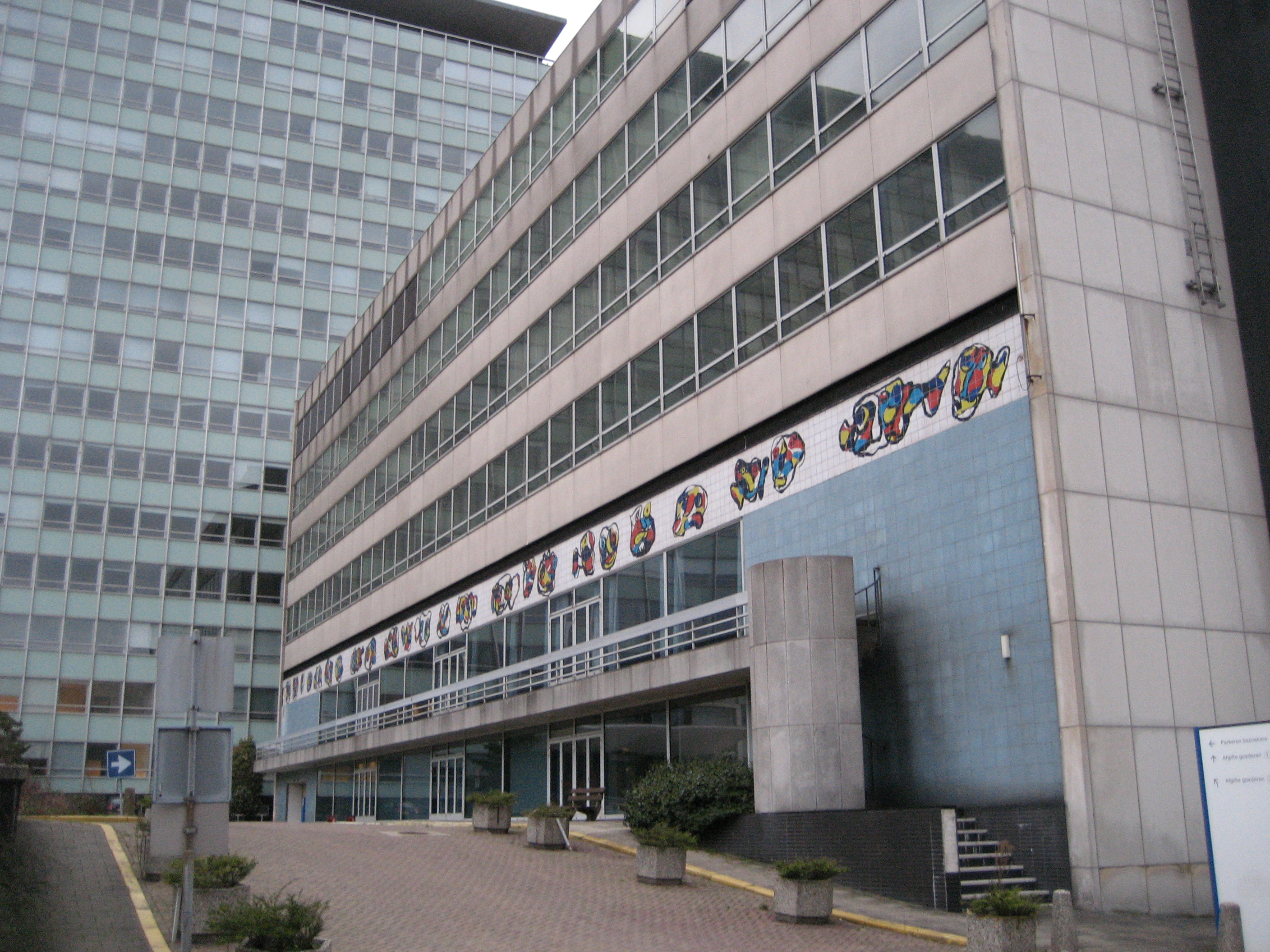 Oostduinlaan 75, Den Haag (the Netherllands). Former building of Shell & CBI. Architect: Hans Oud (1968). Ceramic figures by Karel Appel.